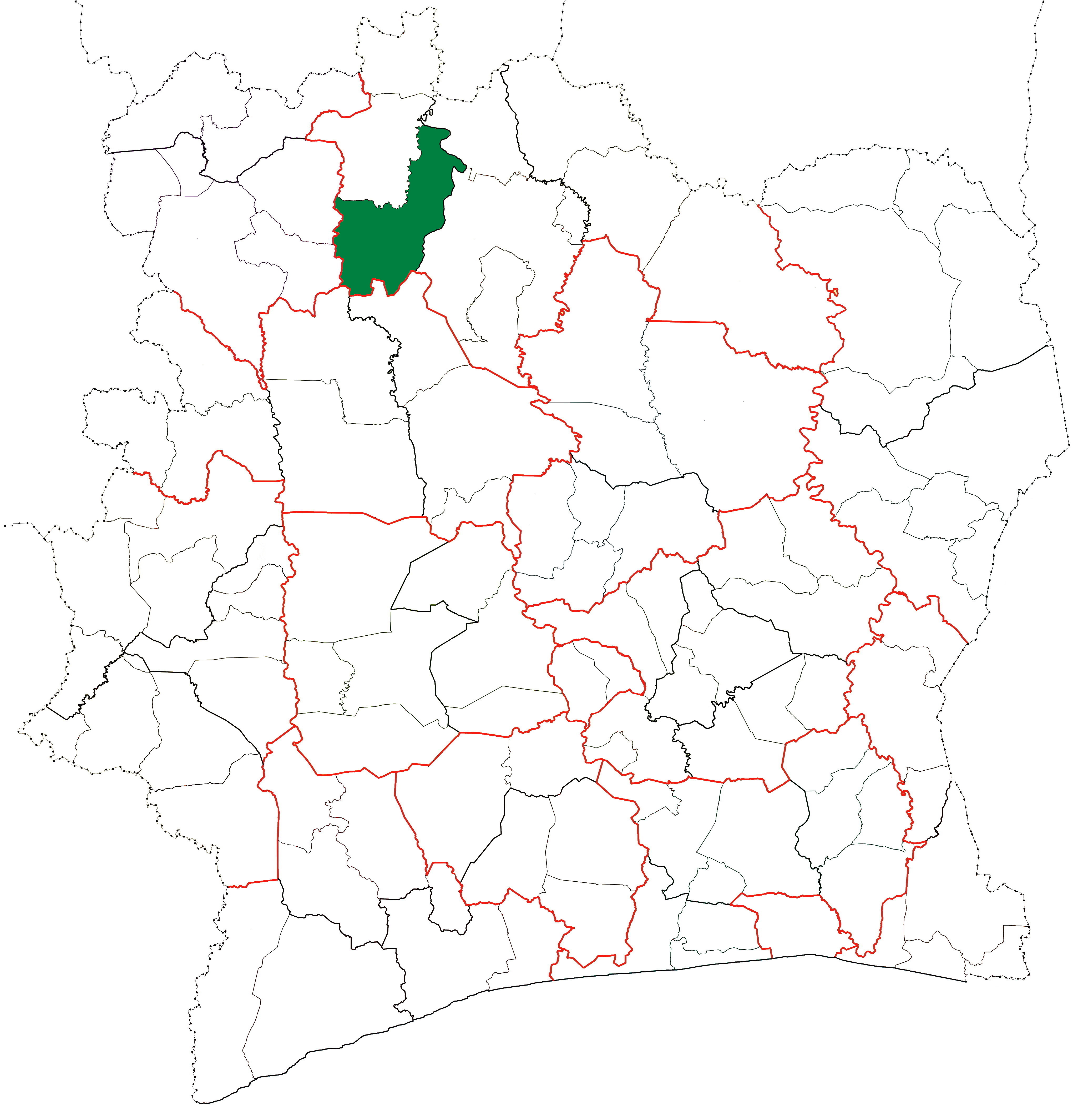 Locator map for Boundiali Department in Côte d'Ivoire.